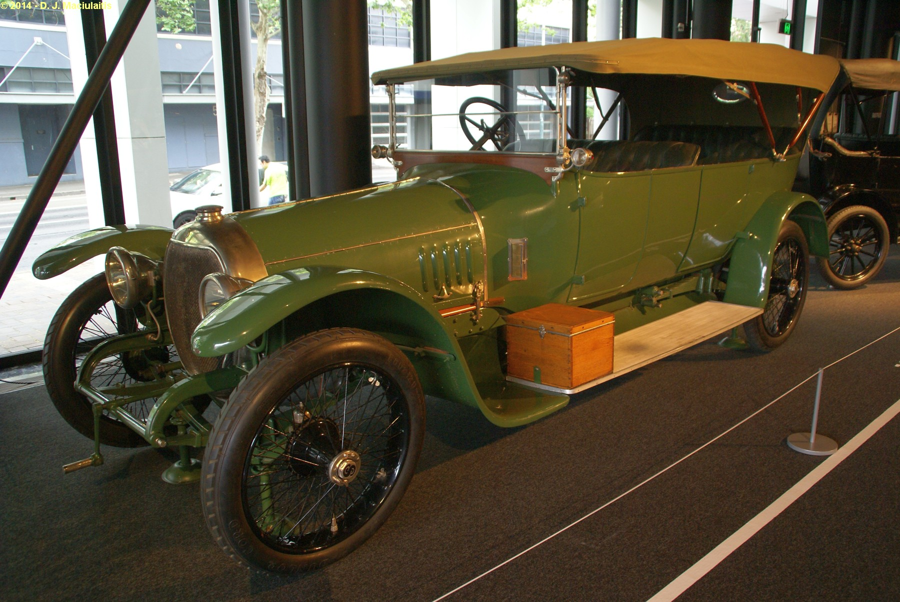 1913 Sheffield SimplexPowerhouse Museum Sydney NSW Automobile, Sheffield Simplex, Type 7B, open four seater torpedo touring body and 6 cylinder engine, chassis made by Sheffield Simplex Motor Works Ltd, body made by Van den Plas, England, 1913 (according to period advertisements, in the early phase of the English coachbuilder the spelling still was "Van den Plas" rather than the later "Vanden Plas").